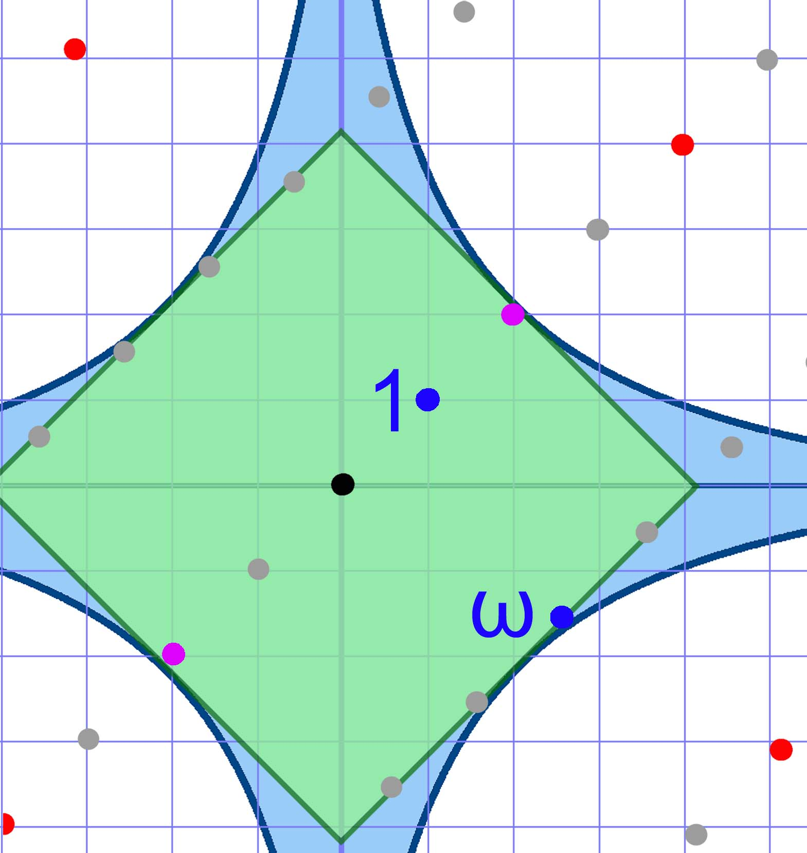 Ideal class group : theorem about the fact that de group is finite. Case illustrated is a totally real number field. The goal is to illustrate the choice of norm.